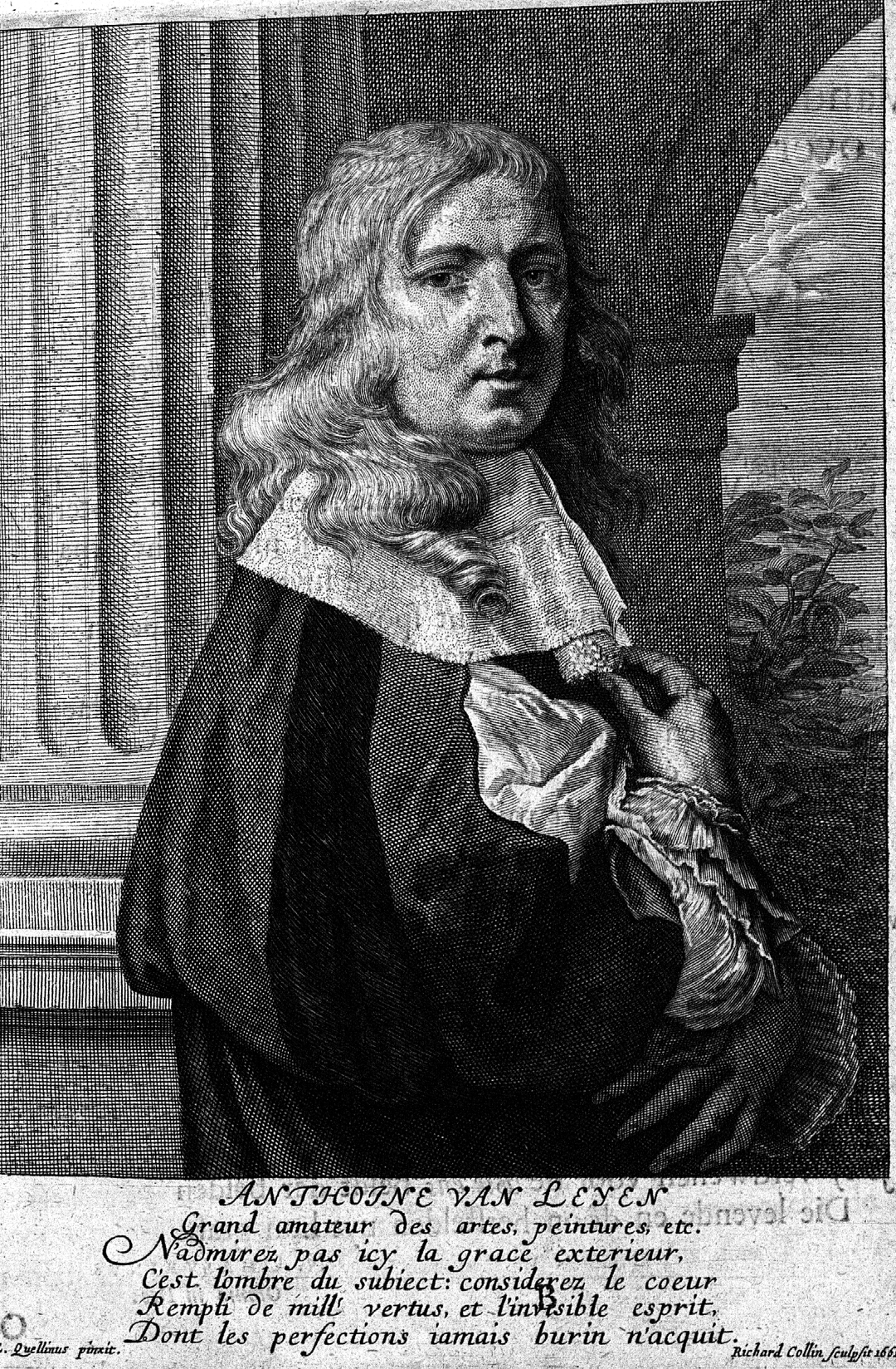 Het Gulden Cabinet, painter biographies by Cornelis de Bie for the Antwerp publisher-engraver Jan Meyssens, 1662 Anthoine van Leyen p 9 (art collector and sponsor of the publication in 1662)